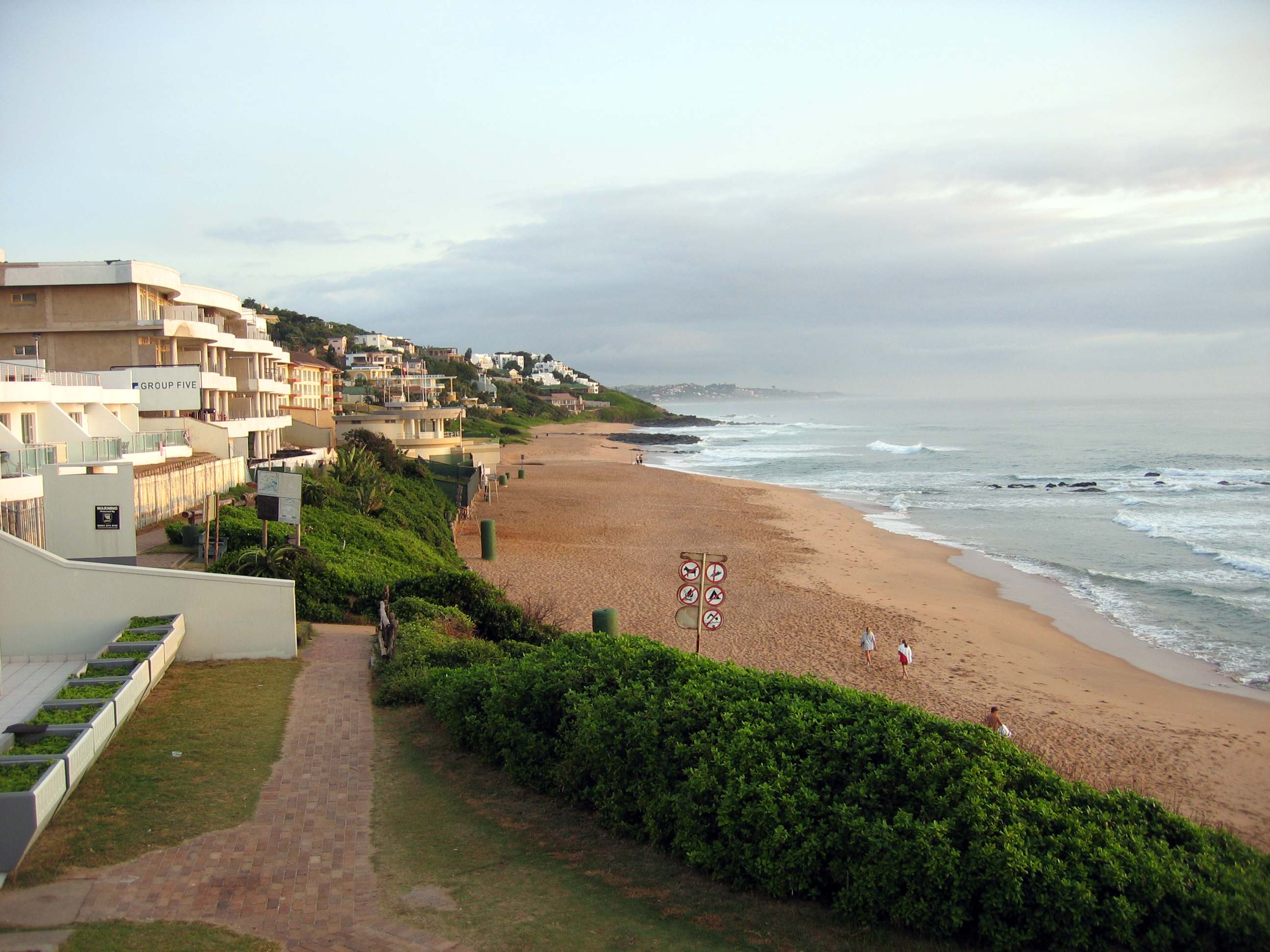 Ballito South Africa beach view